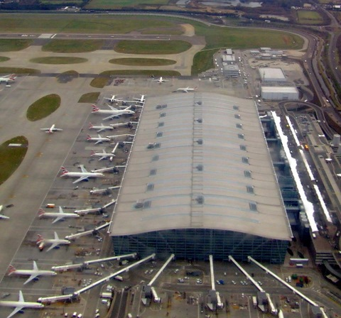 Heathrow Terminal 5 from the air, London, England.